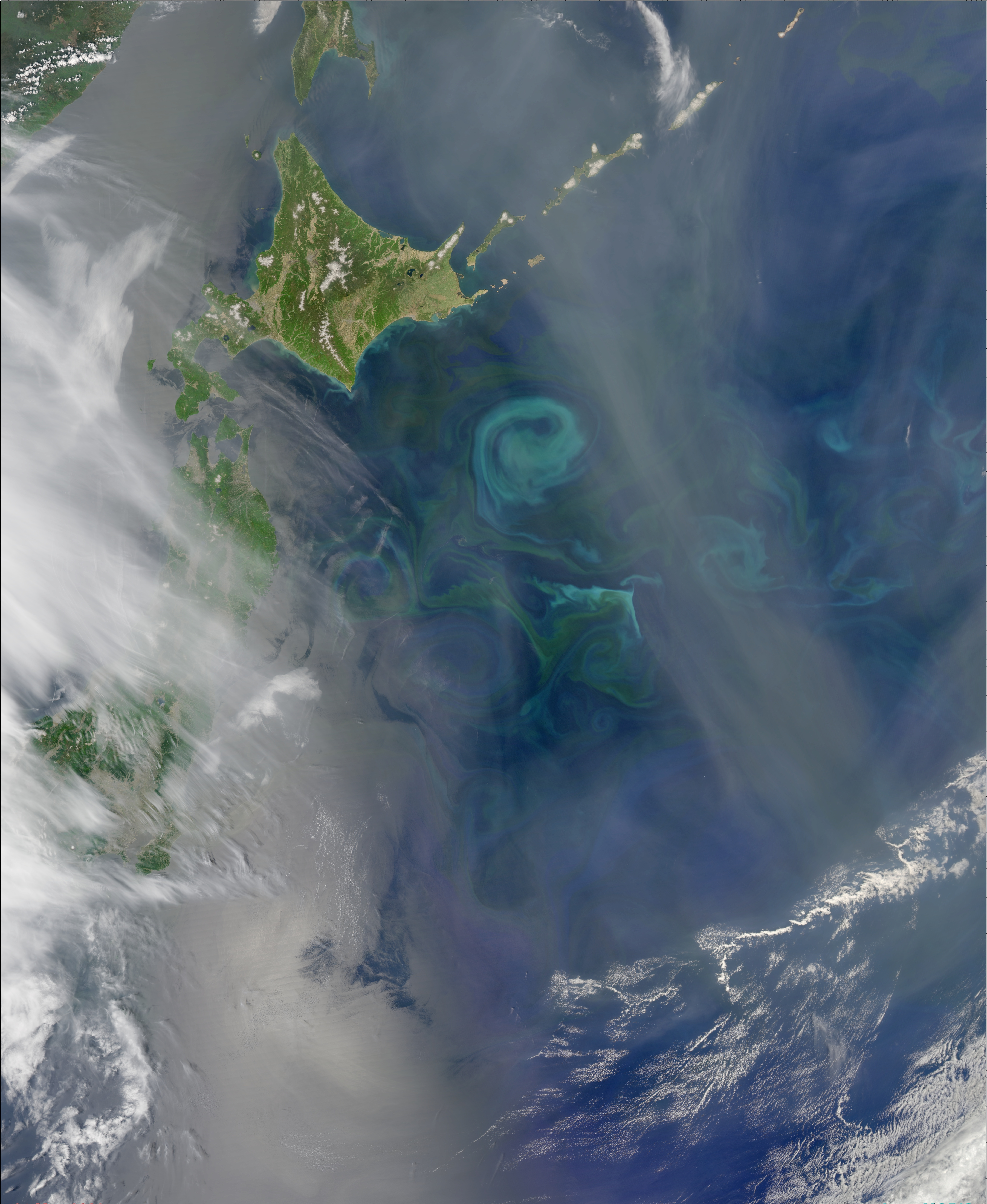 This image illustrates how the convergence of the Oyashio and Kuroshio currents affect phytoplankton. When two currents with different temperatures and densities (cold, Arctic water is saltier and denser than subtropical waters) collide, they create eddies. Phytoplankton growing in the surface waters become concentrated along the boundaries of these eddies, tracing out the motions of the water. The swirls of colour visible in the waters south-east of Hokkaido (upper left), show where different kinds of phytoplankton are using chlorophyll and other pigments to capture sunlight and produce food. The bright blues just offshore of Hokkaido may be churned up sediment, rather than phytoplankton. The washed out appearance of the image at lower left is from sun glint — the (blurred) mirror-like reflection of the Sun off the water. At upper right, a plume of haze, perhaps smoke from fires in Mongolia and Russia, cuts across the scene.